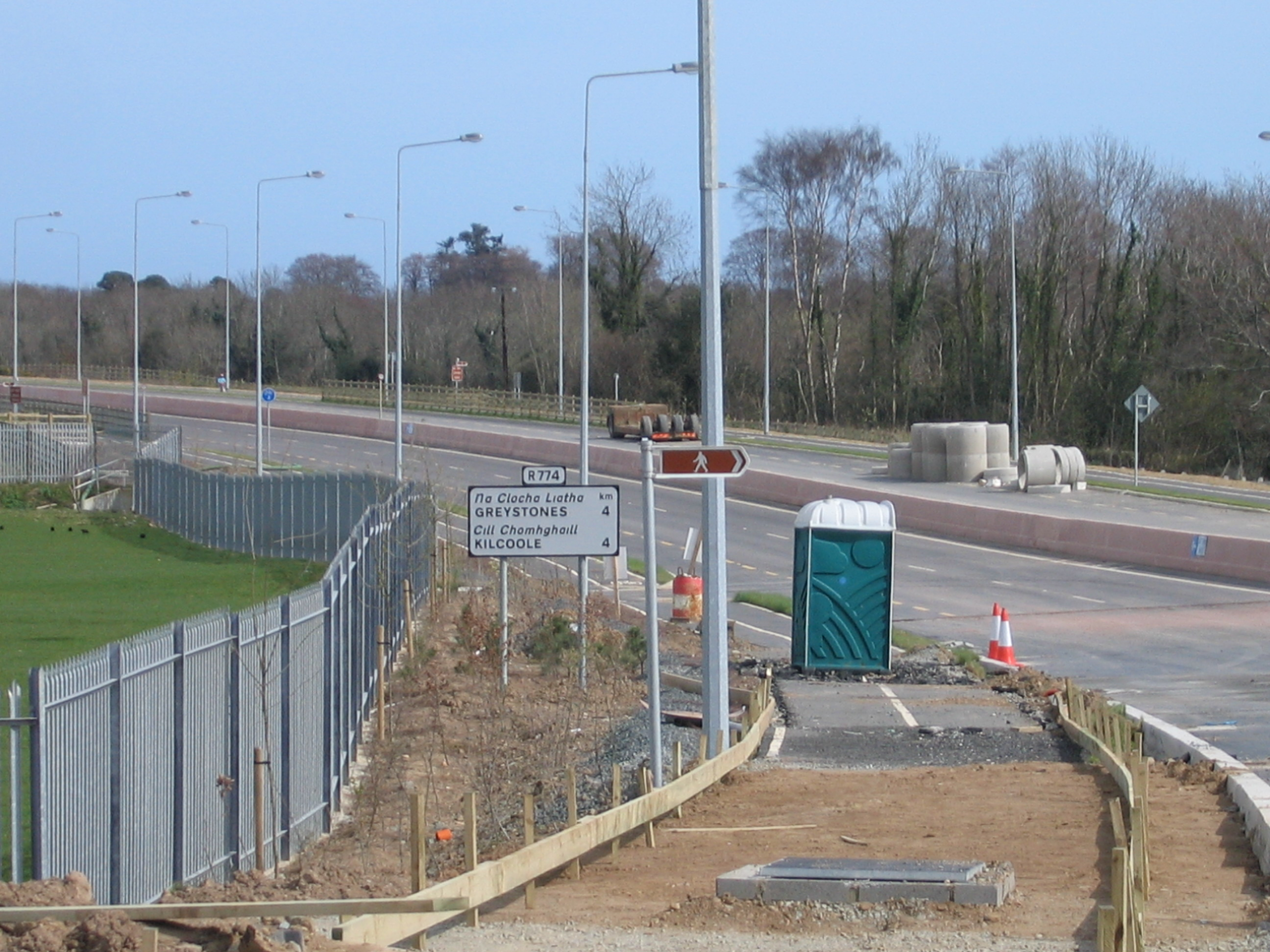 Greystones to N11 link road.